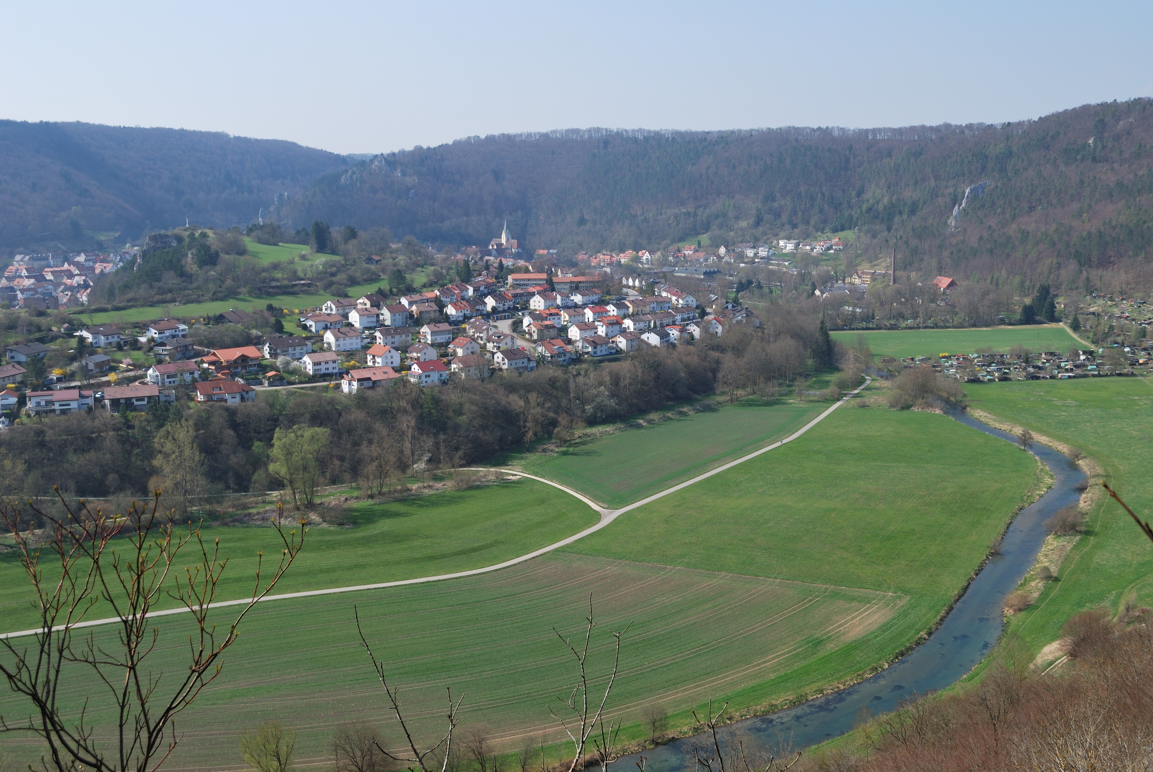 View from the castle ruin Hohengerhausen (Rusenschloss) at Blaubeuren and the Blau valley in Southern Germany.